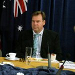 Robert McClelland as Shadow Minister for Foreign Affairs during a breakfast meeting with Vice President of the United States Dick Cheney